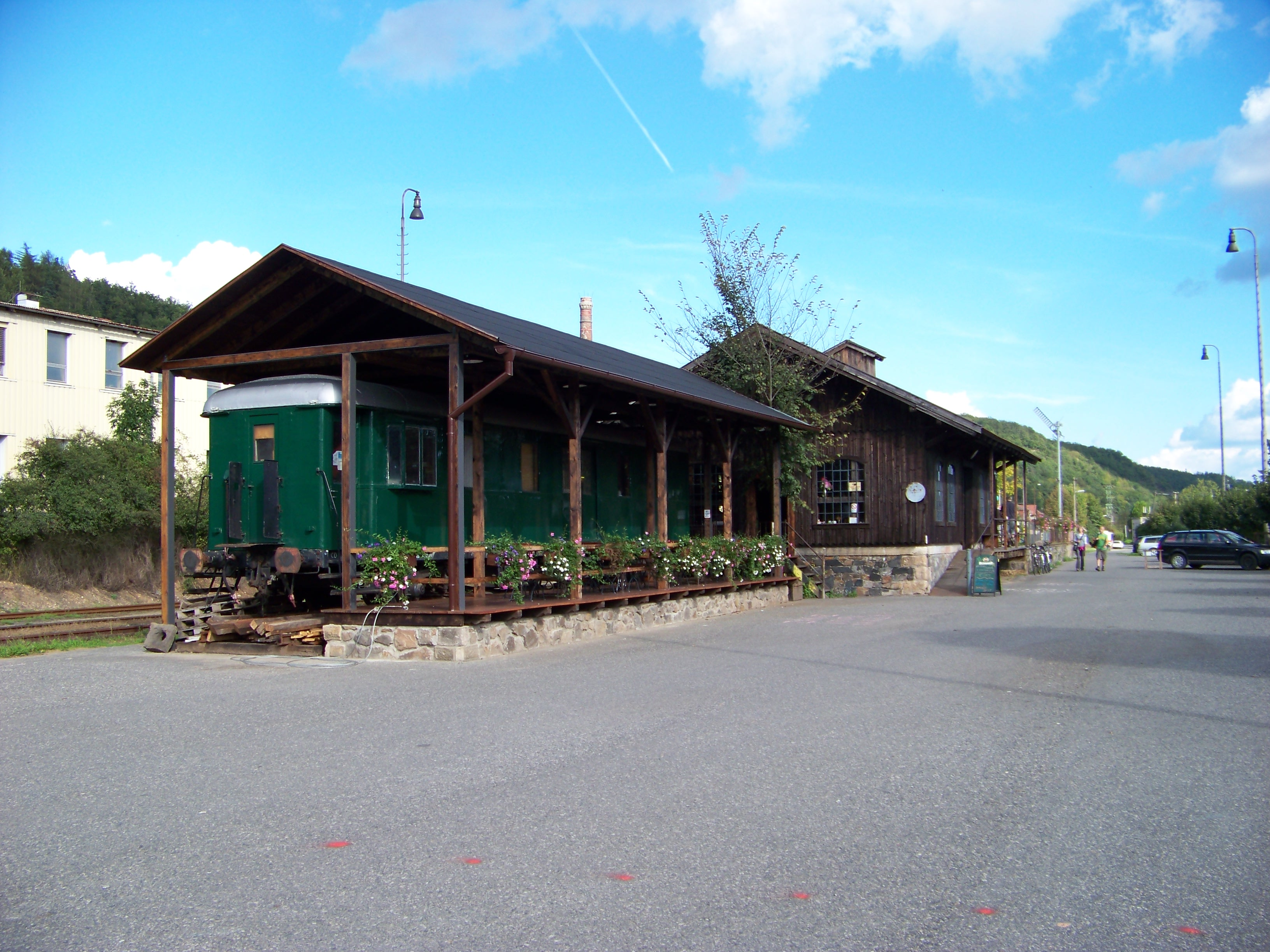 Nižbor, Beroun District, Central Bohemian Region, Czech Republic. K Nádraží street, Zastávka Nižbor restaurant. - OpenStreetMap (Info)